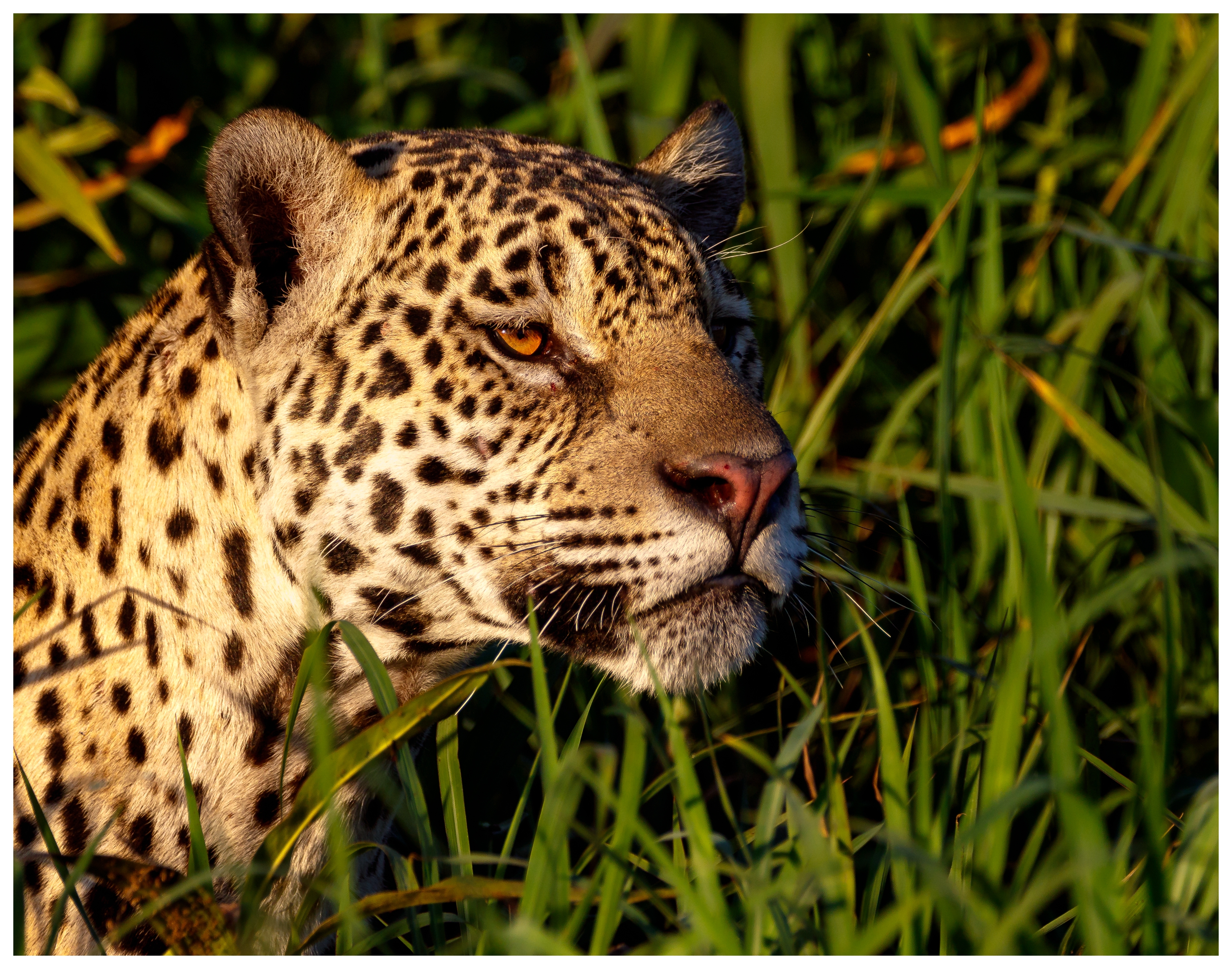 In the Pantanal